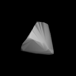 3D convex shape model of 1772 Gagarin, computed using light curve inversion techniques. J. Hanuš, J. Ďurech, M. Brož, B. D. Warner (June 2011). "A study of asteroid pole-latitude distribution based on an extended set of shape models derived by the lightcurve inversion method". Astronomy and Astrophysics 530: A134. ISSN 0004-6361. arXiv